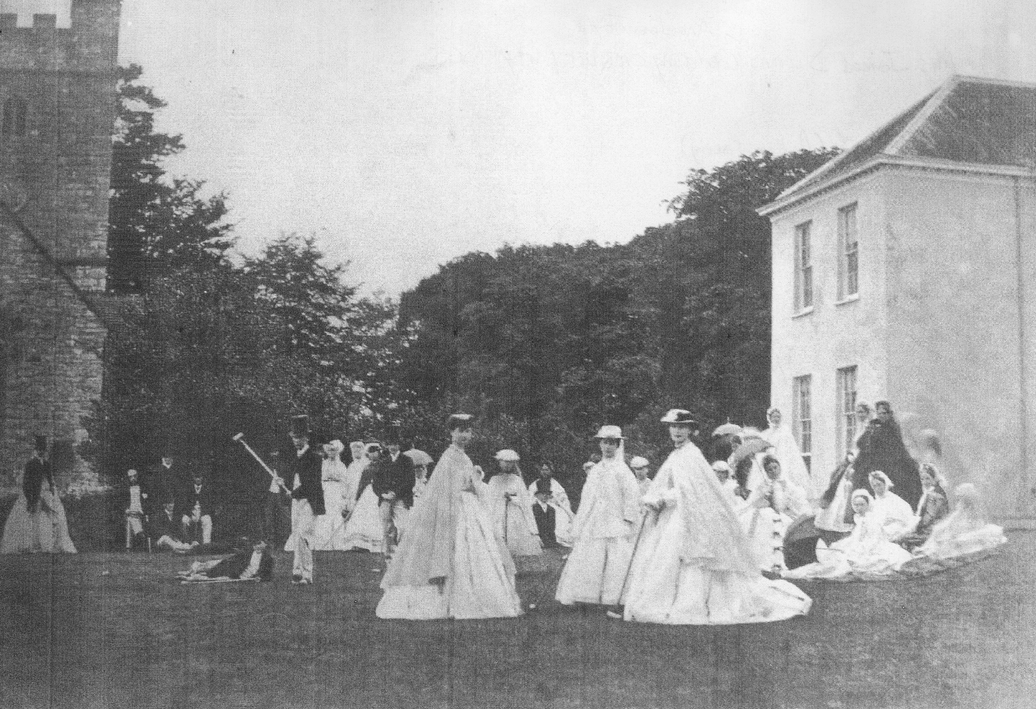 The only known photograph of the old Huntsham Court in Devon that was demolished to make way for the current house built between 1868-70. It records a croquet game at the wedding of Rev James Dunn and Angelina Troyte and shows clearly how close it was to All Saints church.